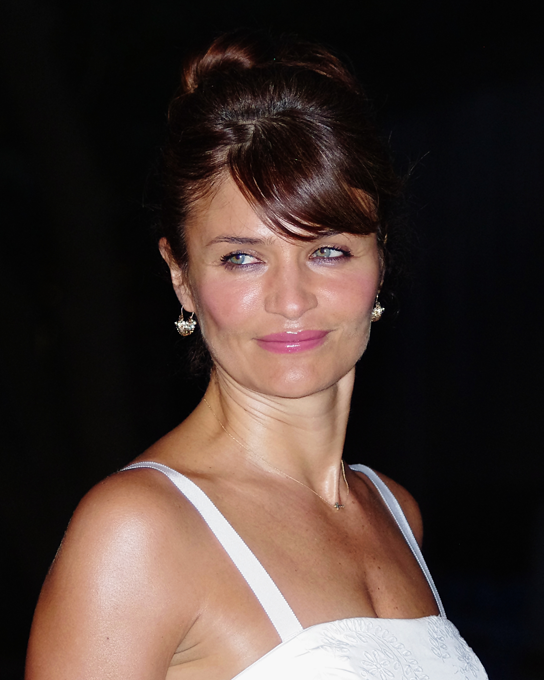 Helena Christensen at the Vanity Fair party for the 2012 Tribeca Film Festival.